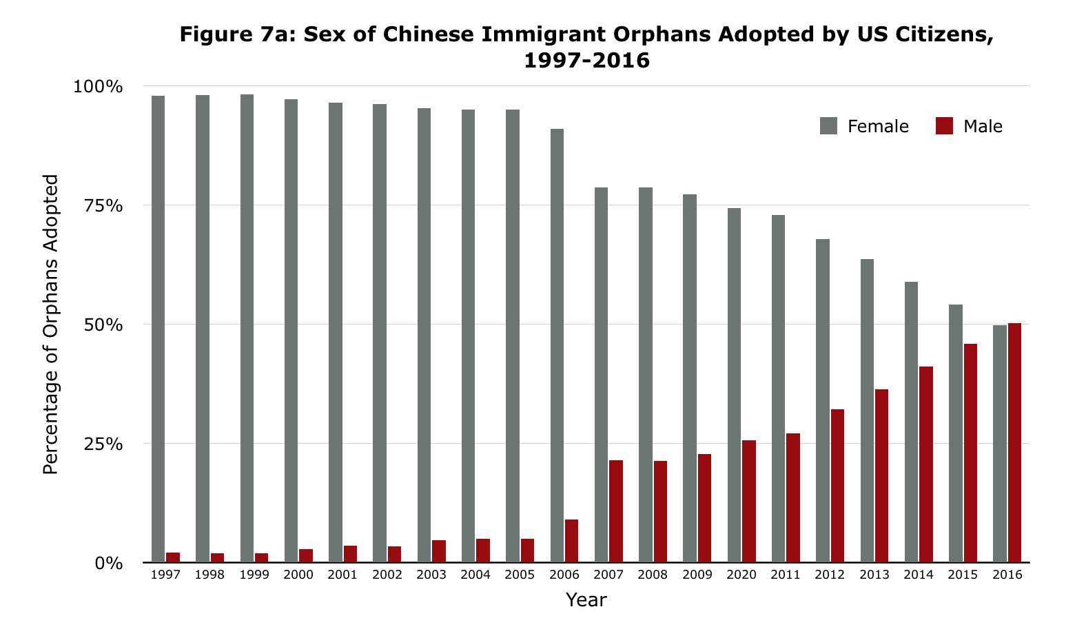 From 1997-2006, over 90% of Chinese orphans adopted by US citizens were female. In all the years shown except 2016, more adoptees were female. The previous years’ difference in sex can most likely be connected to the one-child policy in combination with cultural values.